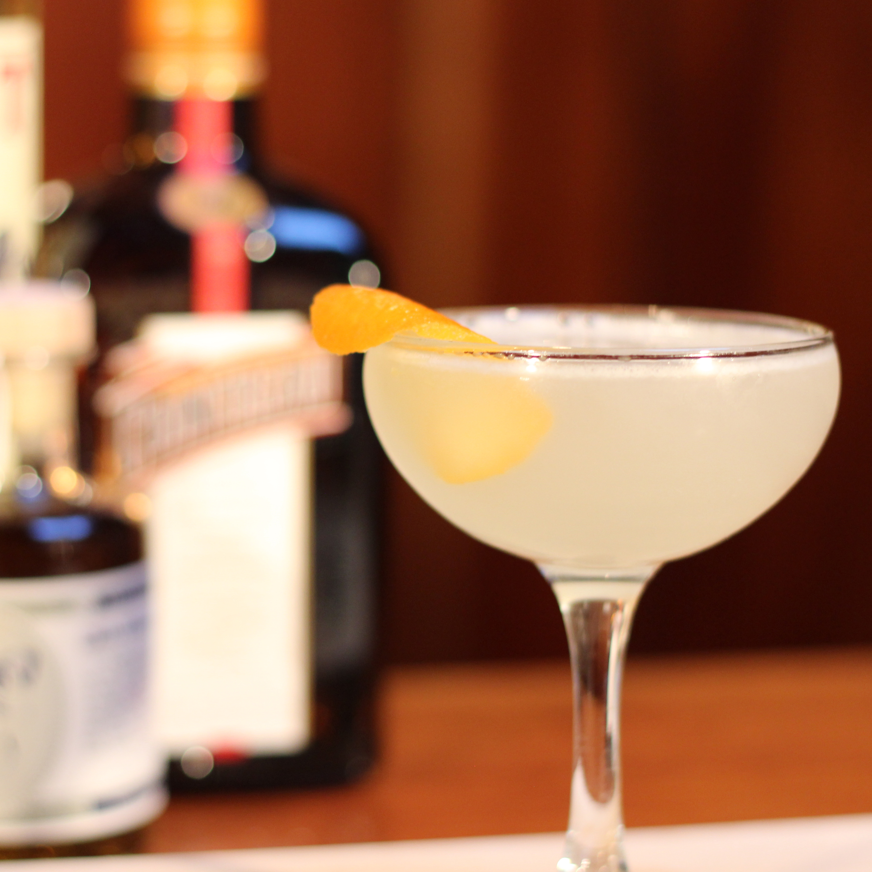 A Corpse Reviver #2 cocktail, made with gin, Cointreau, Lillet Blanc, lemon juice, and absinthe